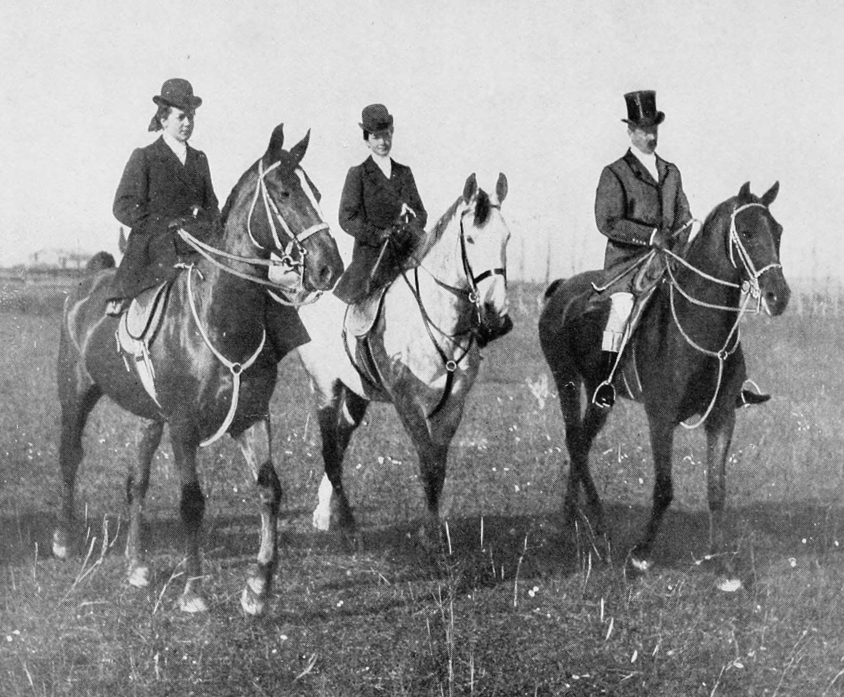 George von Lengerke Meyer, United States businessman, diplomat and politician from Massachusetts, with his daughters Julia and Alice on horseback riding to a hunt on the campagna in Cecchingola, Italy